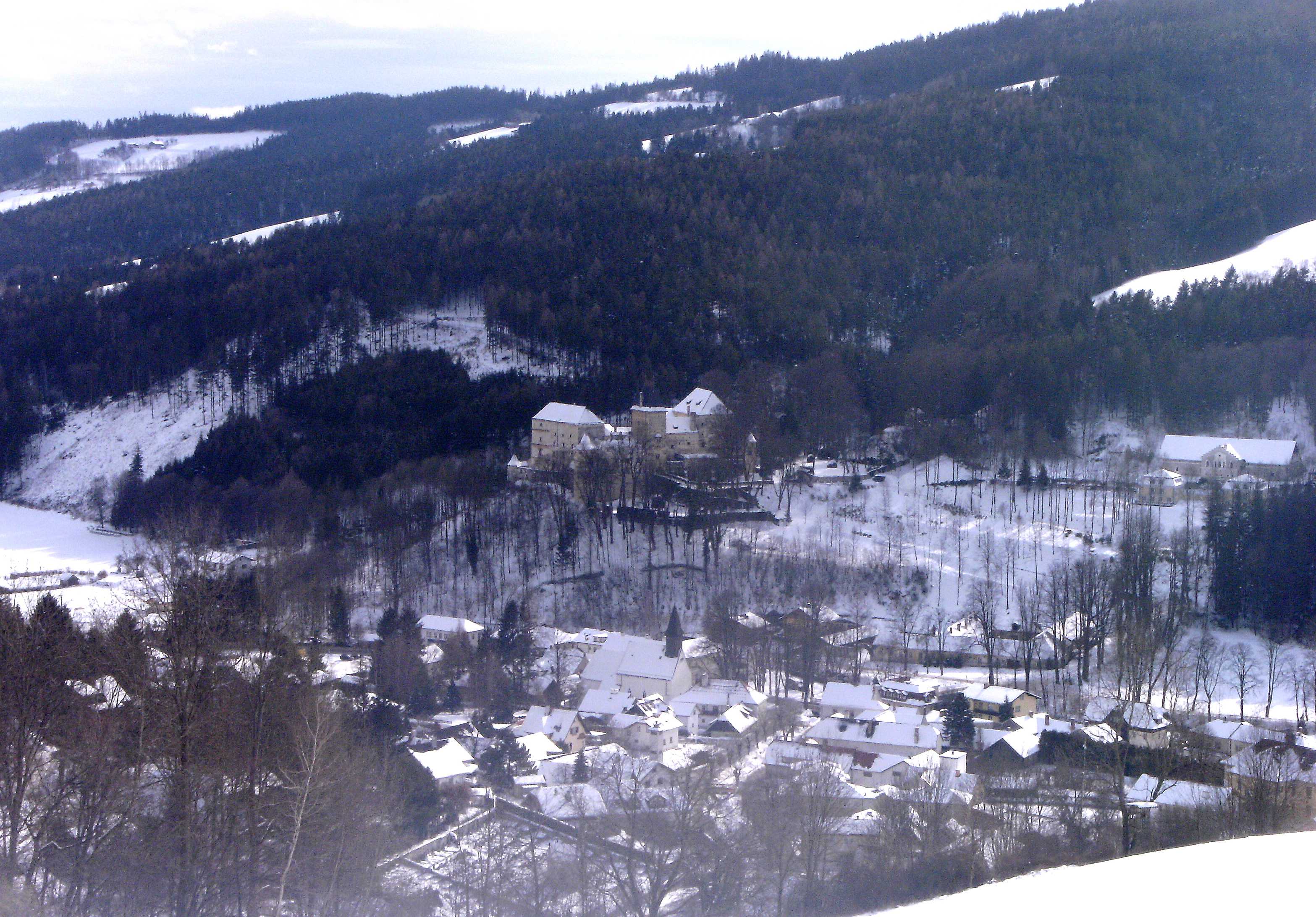 Feistritz am Wechsel, Lower Austria